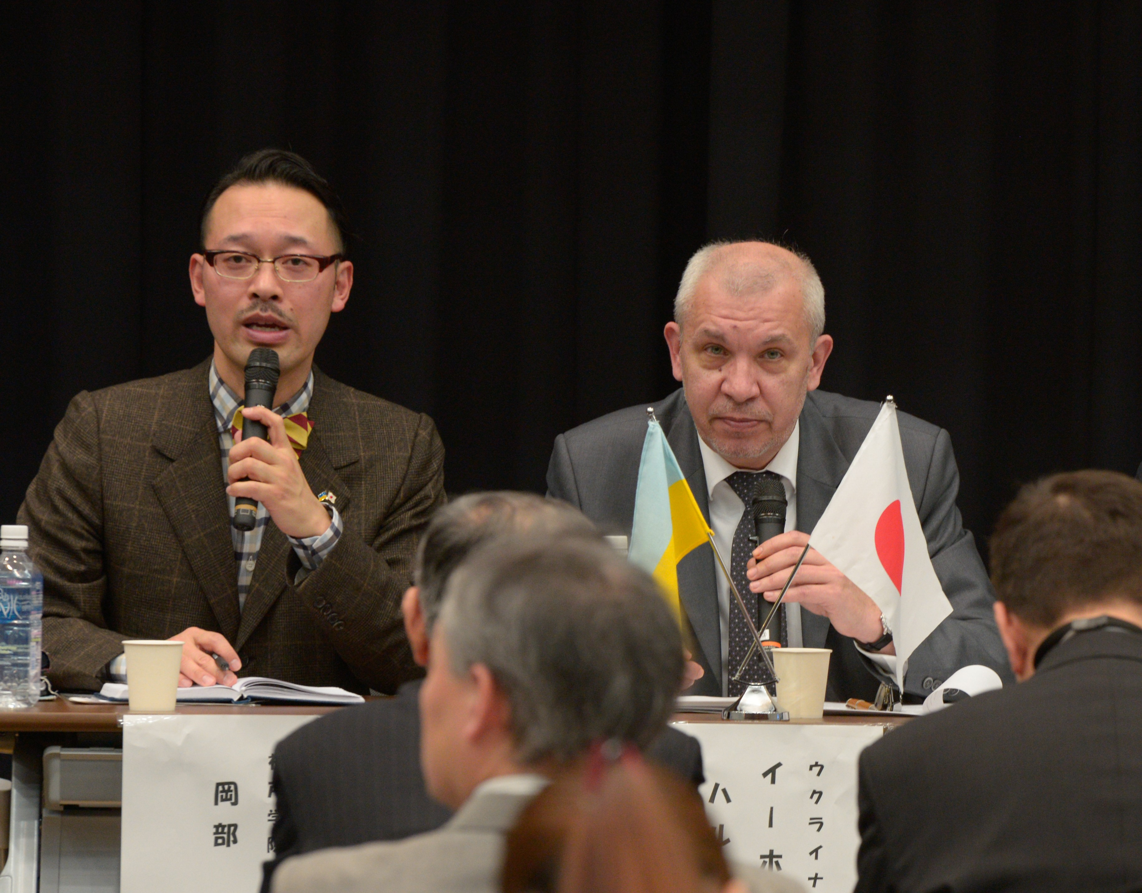 Specialist of Ukraine